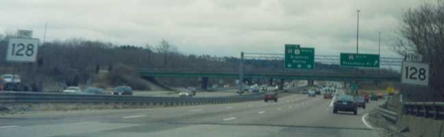 I-95 south where it leaves Route 128, which now ends here; I-93 north begins ahead. US 1 continues straight. Taken ca. 2000 by SPUI.